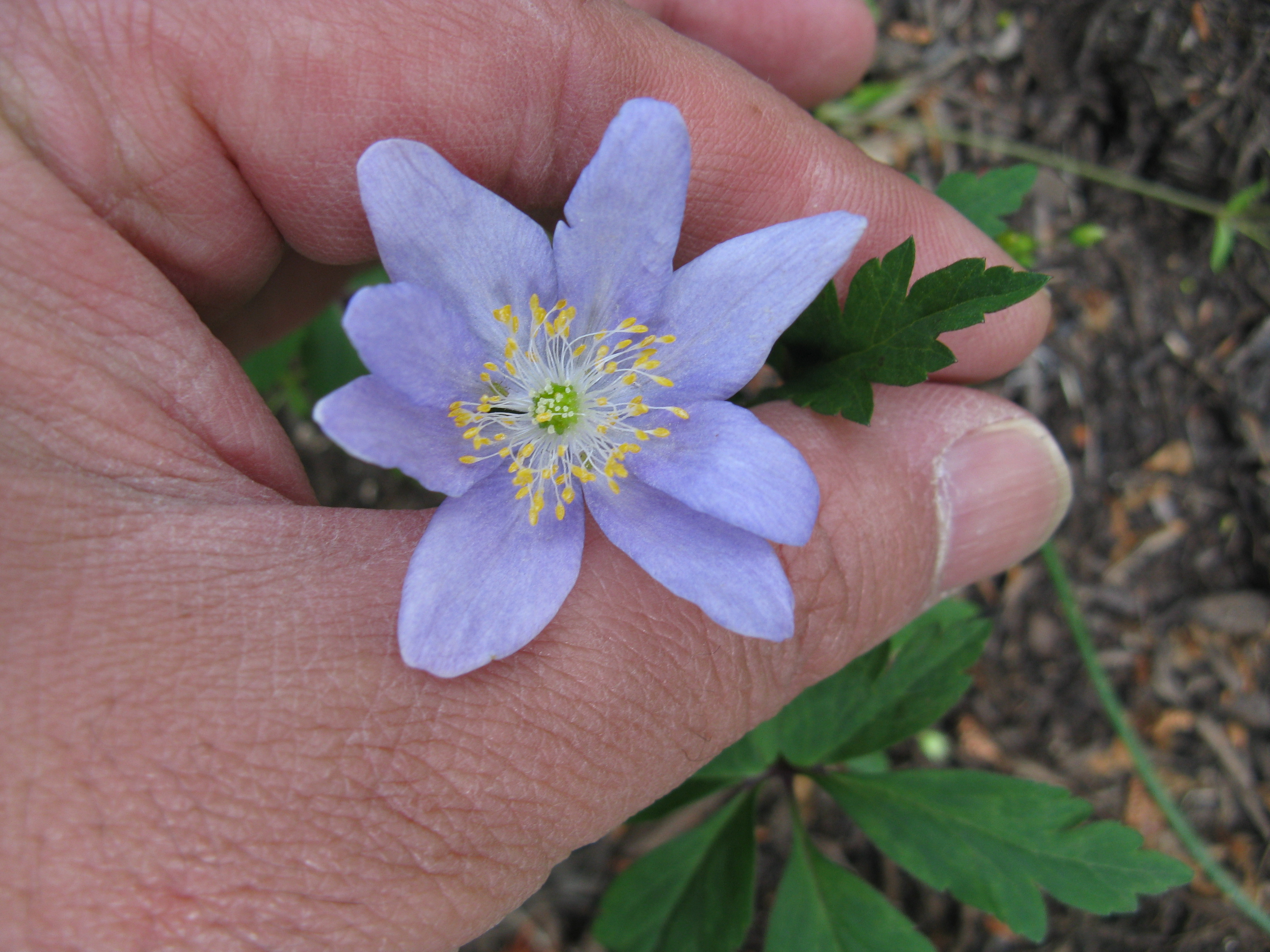 Anemone nemorosa ' 'Blue' Place:Osaka Prefectural Flower Garden,Osaka,Japan